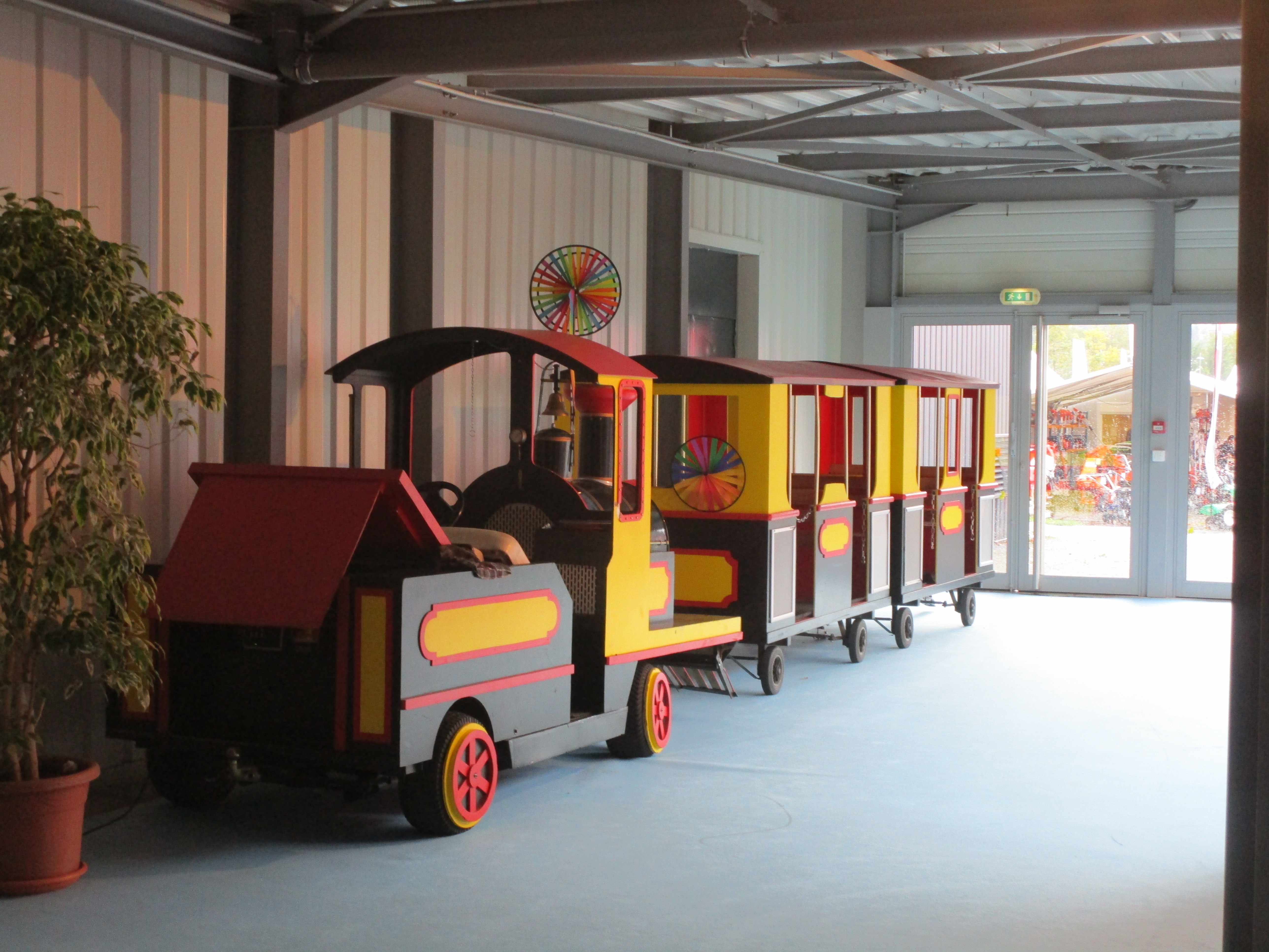 The touristic train Tchou-Tchou parked, on September 17, 2015, in the Hall des Conventions of the exhibition park of Chambéry, during the Foire de Savoie.